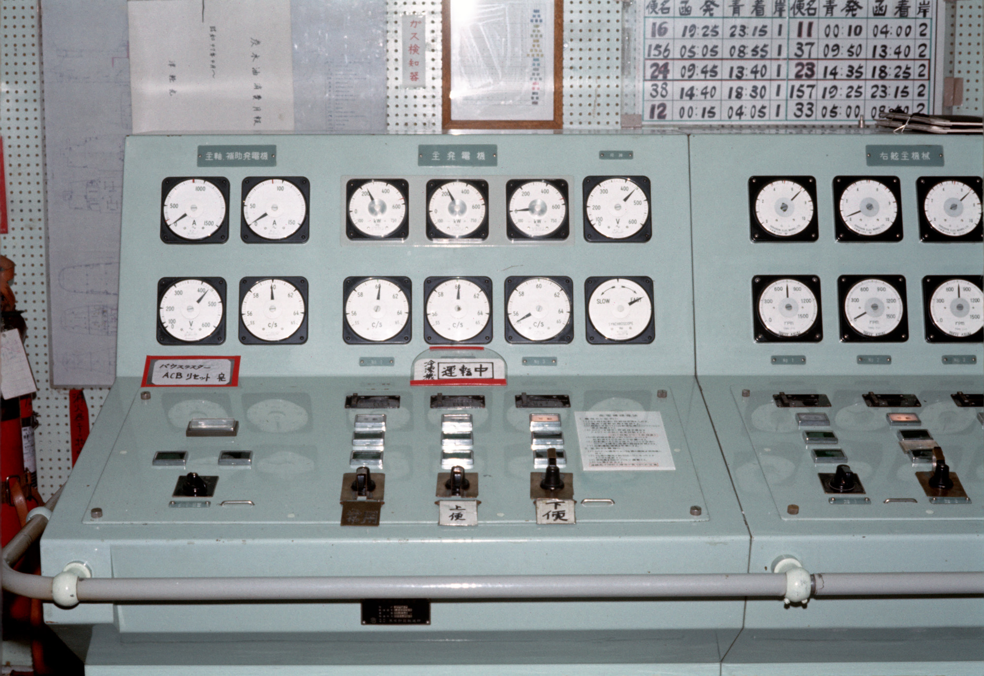 MS TSUGARU MARU Generator control console in Engine control room. Upper and lower left indicators are Electric current and Voltage meters of Main shaft generator. Main shaft generator always operated when Main shaft drove. In this time MS TSUGARU MARU was navigating high speed. So Bow Thruster was not used, Main shaft generator generated 445V but zeroA.